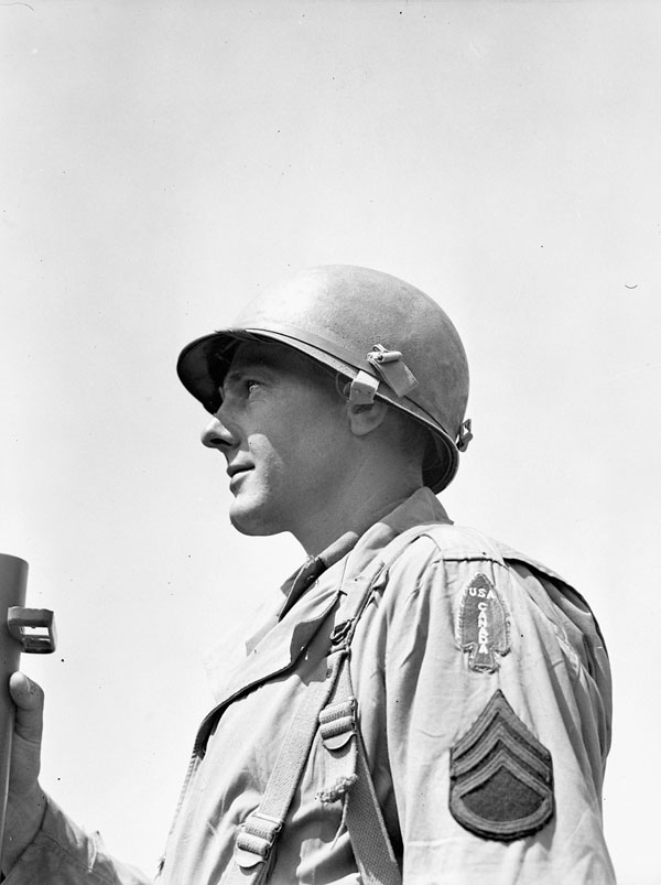 Unidentified sergeant of the First Special Service Force, wearing the distinctive USA-CANADA spearhead shoulder title, Anzio beachhead, Italy.